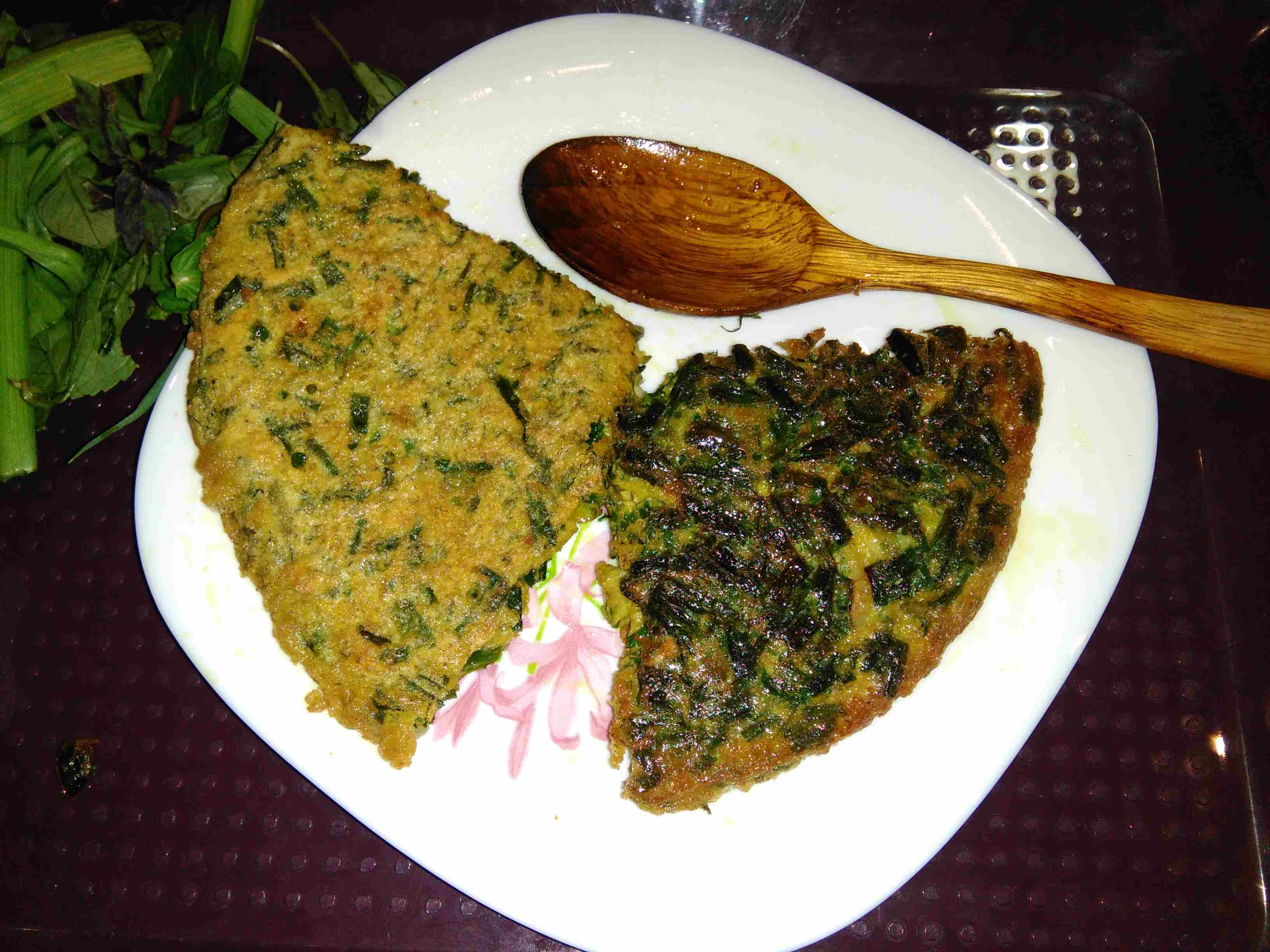 Persian Khagina